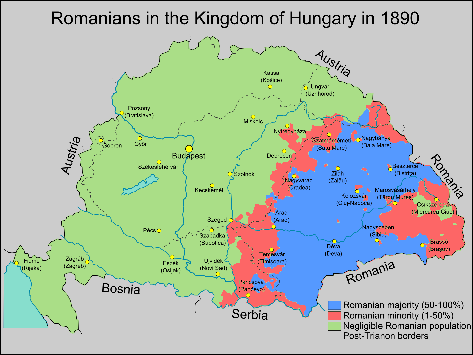 Distribution of Romanian majorities in the Kingdom of Hungay, according to the 1890 census.